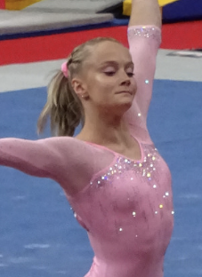 Riley McCusker at the 2018 US National Championships on floor exercise